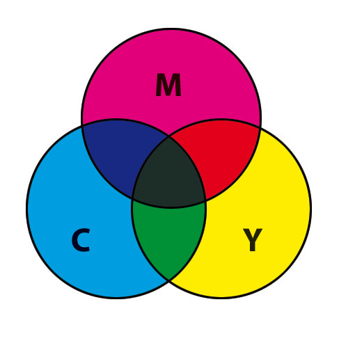 Substractive CMY as used in polygraphy